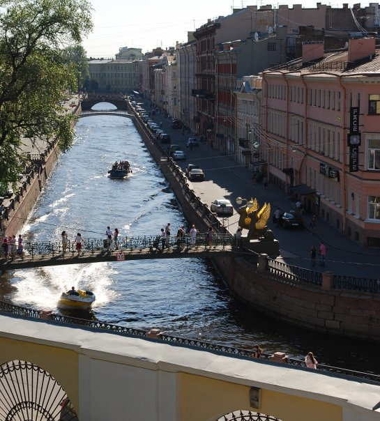 Вид из окна StArtАкадемии летом 2010